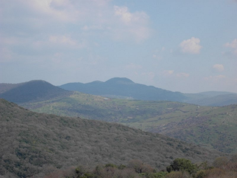 Monte Tolfaccia, Mountain Lazio Italy